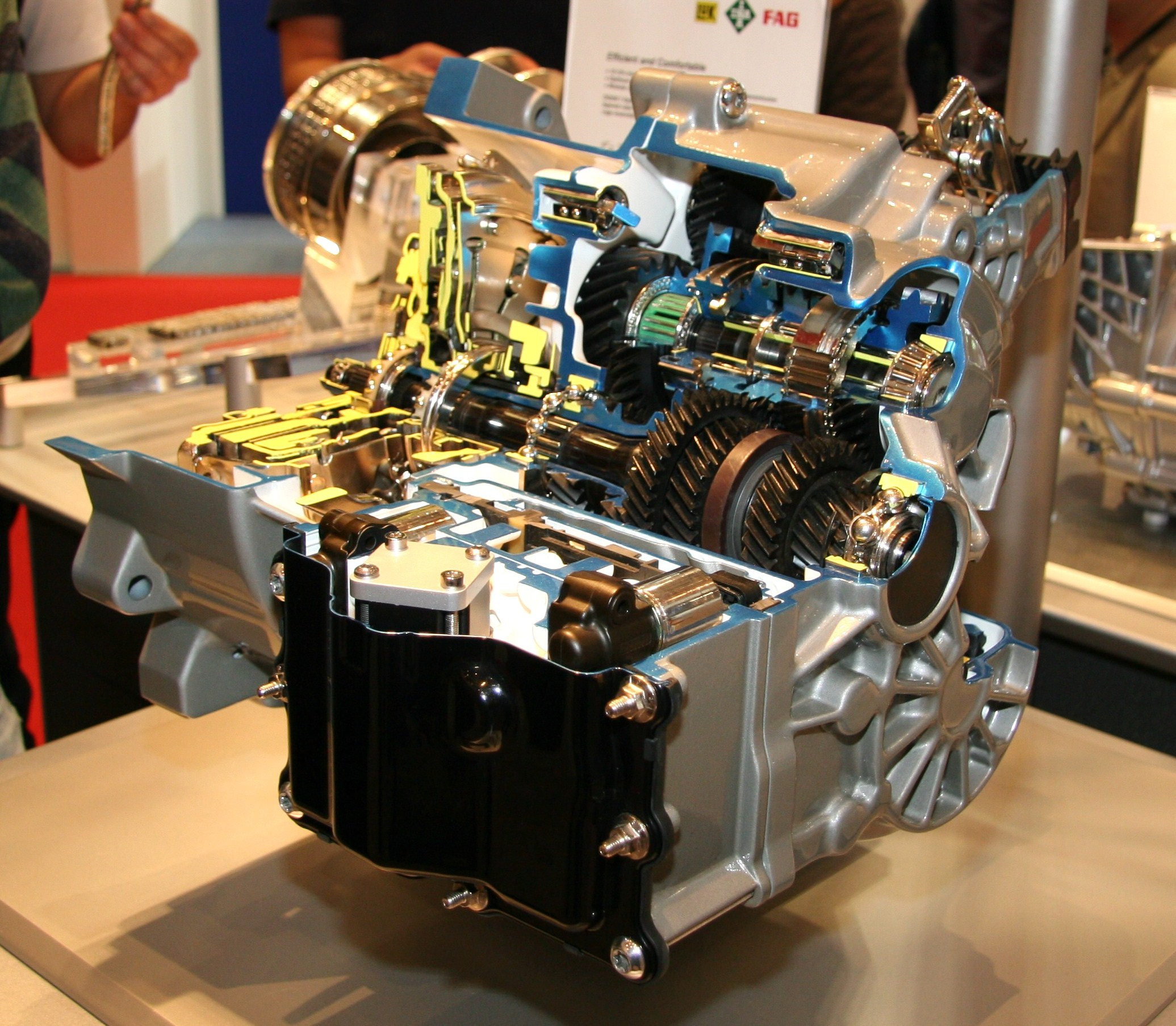 VW 7-speed DCT